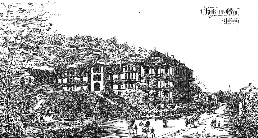 Valkenburg, Limburg, the Netherlands. Design by Pierre Cuypers for a hotel in Valkenburg (1890). The Kurhaus Huis ter Geul is now known as Parkhotel Rooding.